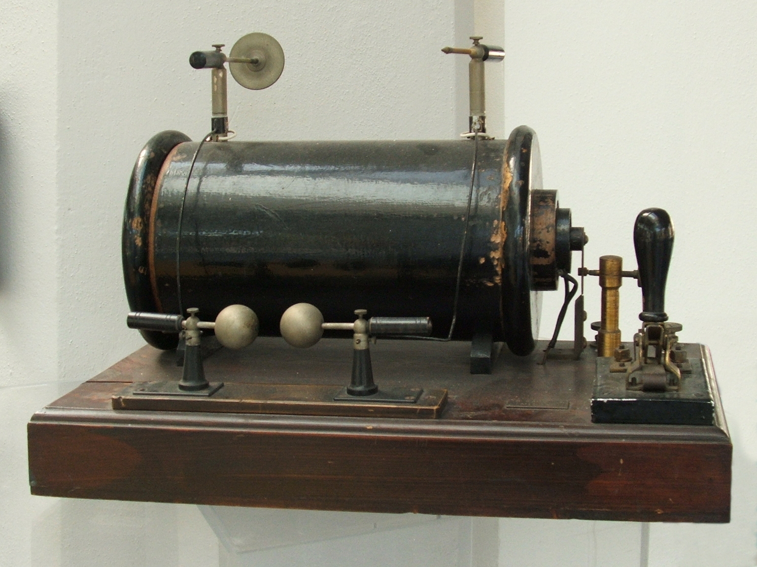 Ruhmkorff coil, at Explorazione, Treviglio, Italy